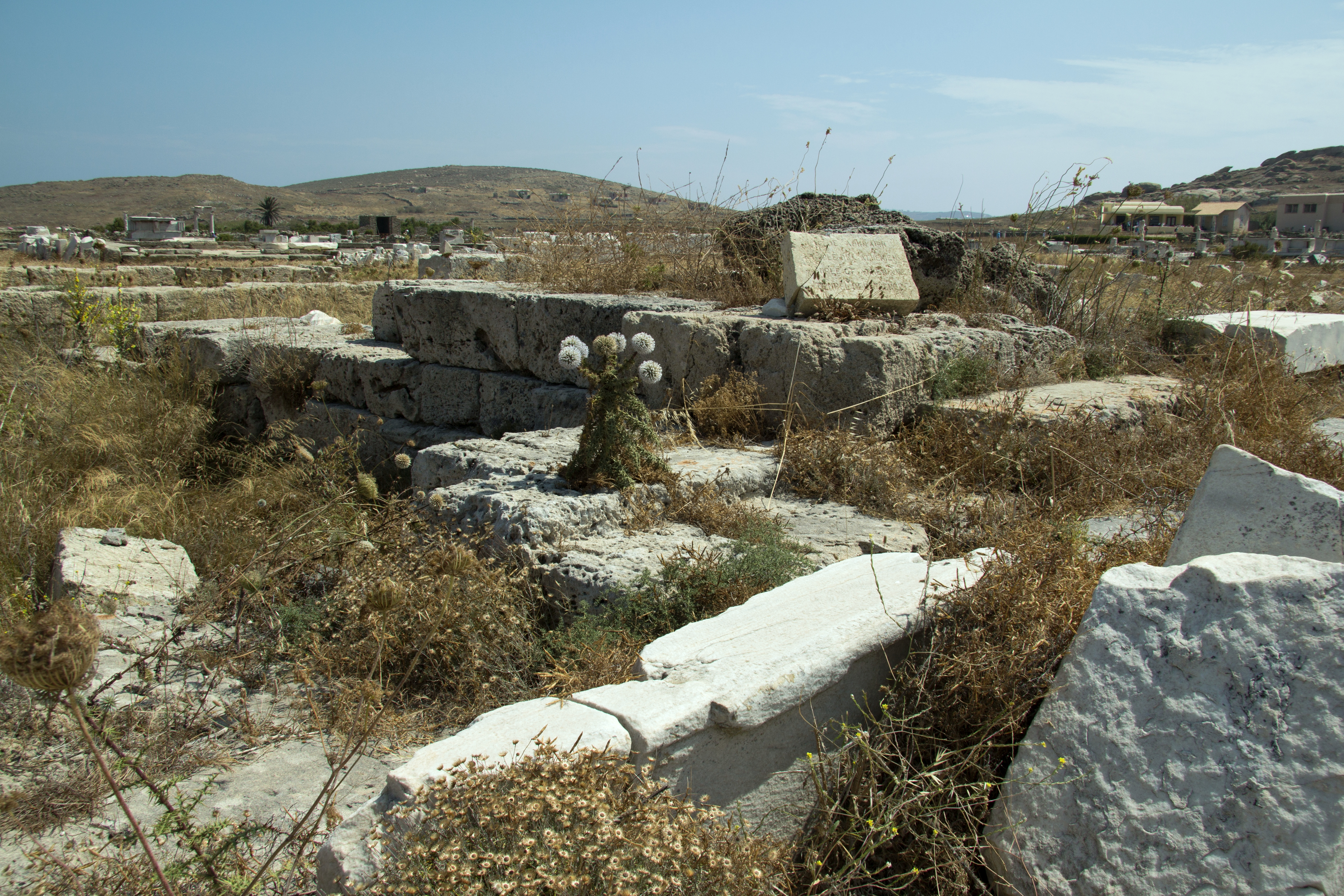 Athens Temple of Apollo at Delos. ("Temple of the Athenians.")